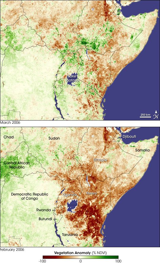 vegetation anomalies in East Africa in February and March 2006, visualizing the drought in the region at this time